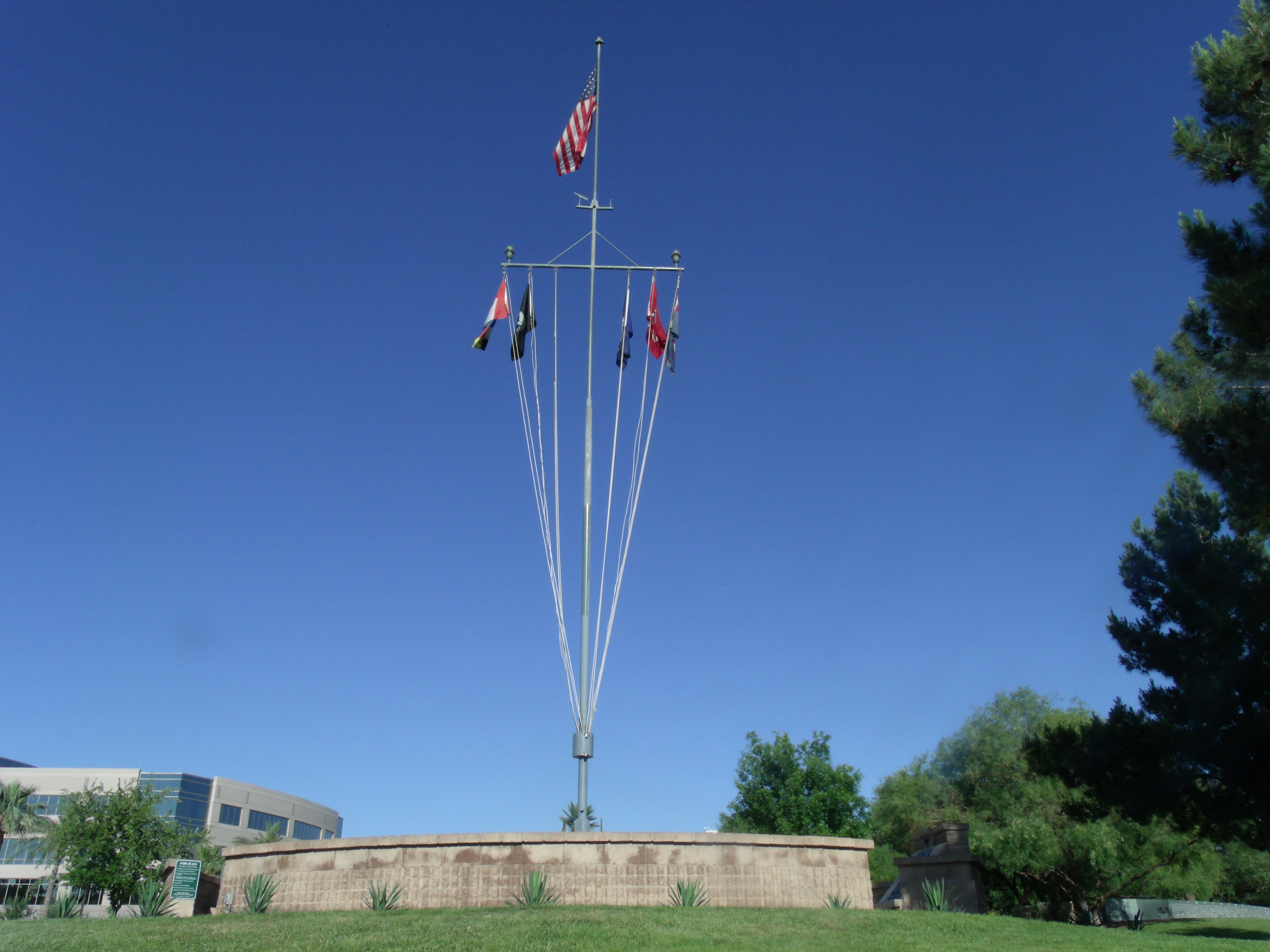 The Signal Mast of the USS Arizona located on the grounds of Arizona's State Capital